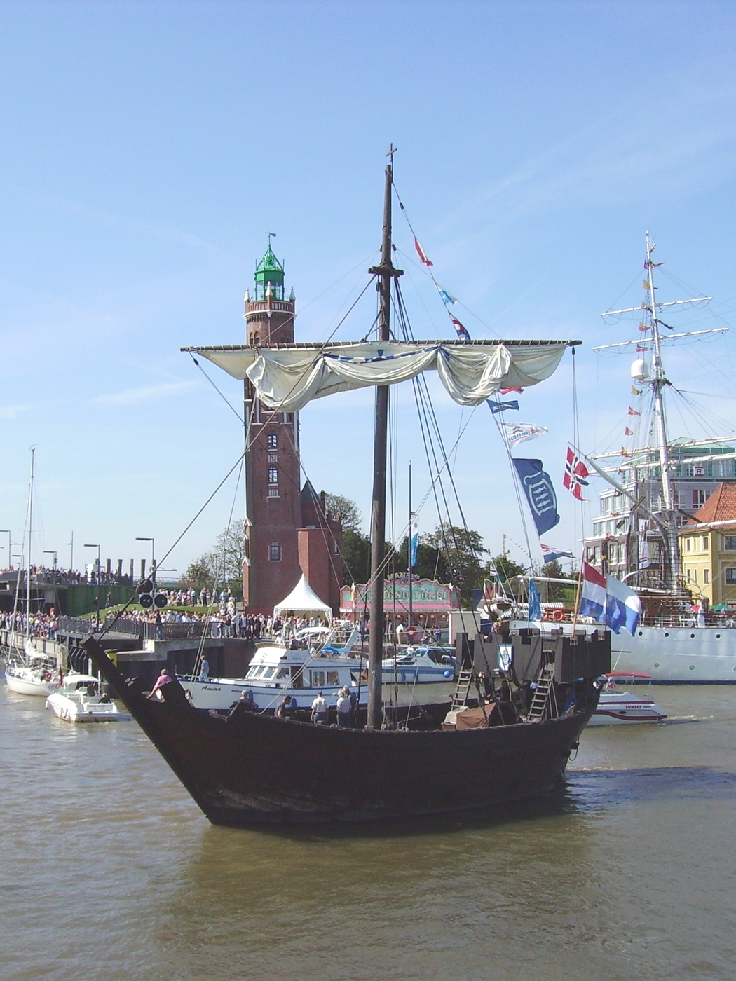 A Dutch cog from Kampen, here seen in Bremerhaven, Germany